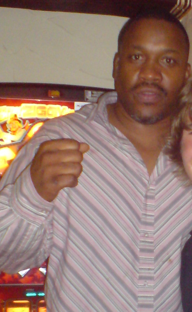 American boxer Tim Witherspoon (left).